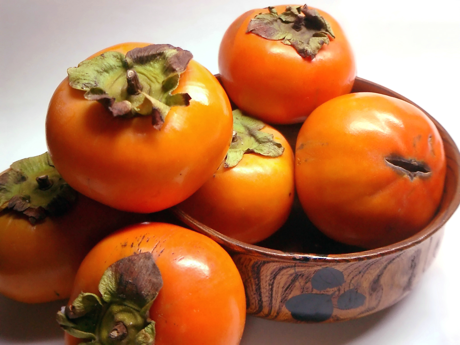 persimmons